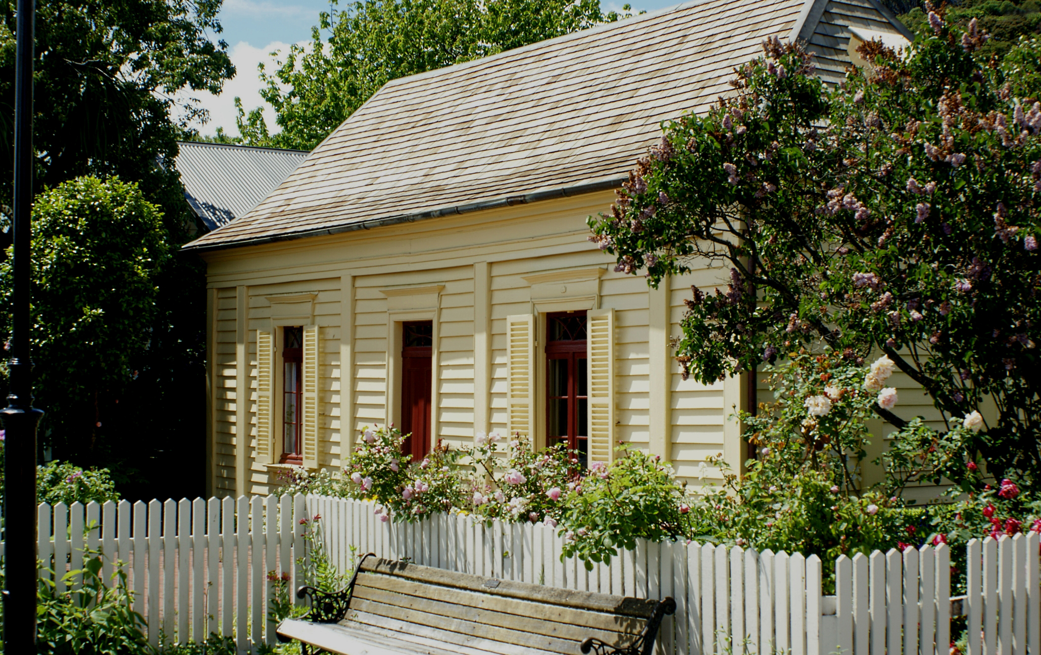 Langlois-Etevenaux Cottage, Akaroa (c.1843) One of the oldest surviving houses in Canterbury, the Langlois-Eteveneaux Cottage (71 Rue Lavaud, Akaroa) was built in the early 1840s by Aimable Langlois. In 1858 the cottage passed to Jean-Pierre Eteveneaux, another French settler. Once thought to have been prefabricated in France, the cottage was built of NZ native timbers. But it owes its more sophisticated French styling to a remodelling around 1900 by Jean-Baptiste Eteveneaux, Jean-Pierre’s son. Jean-Baptiste gave the cottage a French look – with louvred shutters, rudimentary pilasters and elegant transom windows. In 1963-64, the cottage was shorn of later additions, returned to its original two-room size and furnished with French furniture. Its age, and its being refurbished “in the French style” in the early 20th century, make the cottage Akaroa’s most important reminder of its French origins. NZHPT Category I; registration 264.